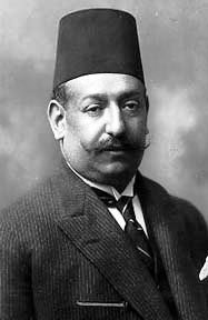 Fakhry Abdel Nour